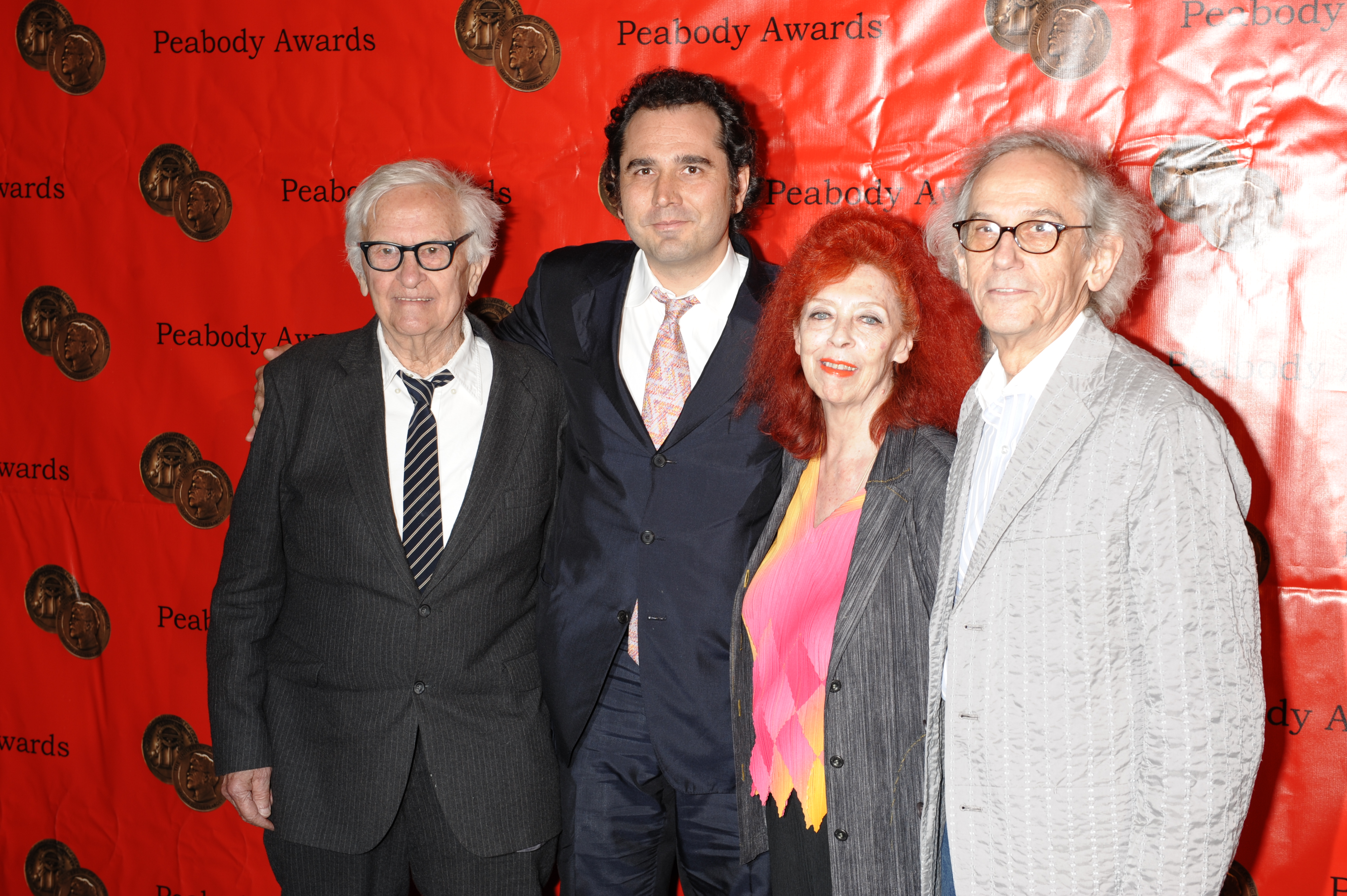 PHOTO CREDIT: ANDERS KRUSBERG / PEABODY AWARDS Al Maysles, Antonio Ferrera, Jeanne-Claude and Christo Javacheff 68th Annual Peabody Awards Luncheon Waldorf=Astoria Hotel New York, NY USA May 18, 2009